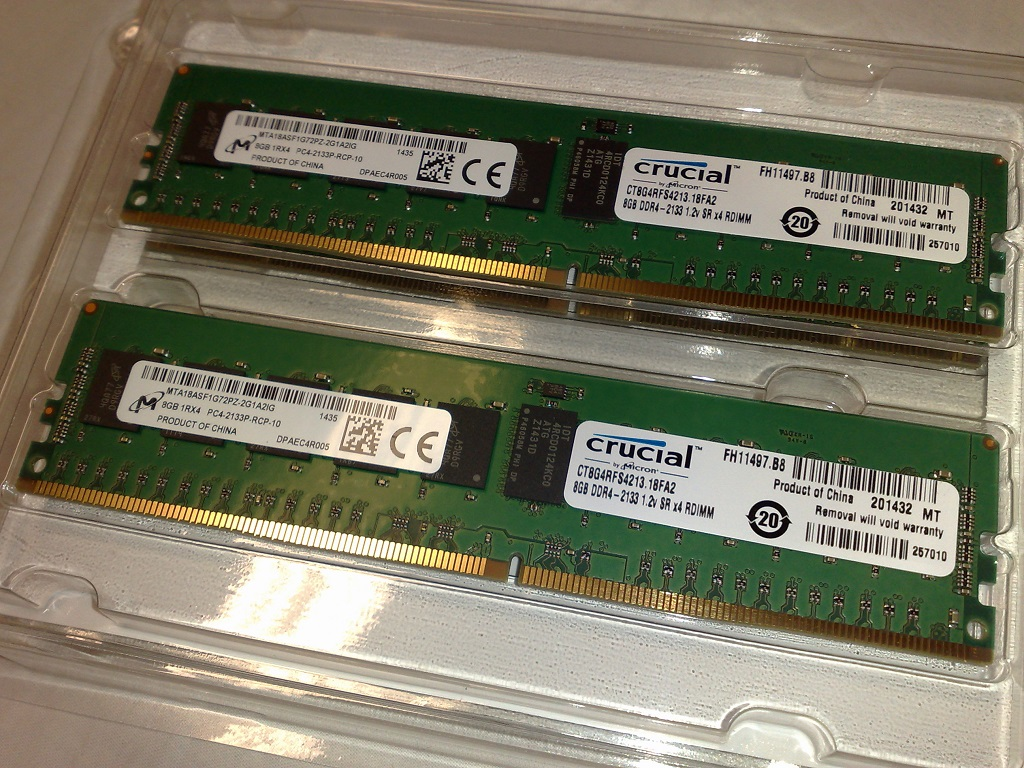 Two 8 GB DDR4-2133 288-pin ECC 1.2 V RDIMMs (Crucial p/n: CT8G4RFS4213.18FA2); this is actually a kit of four DDR4 RDIMMs (Crucial p/n: CT8G4RFS4213), and the third one is partially visible in the picture.